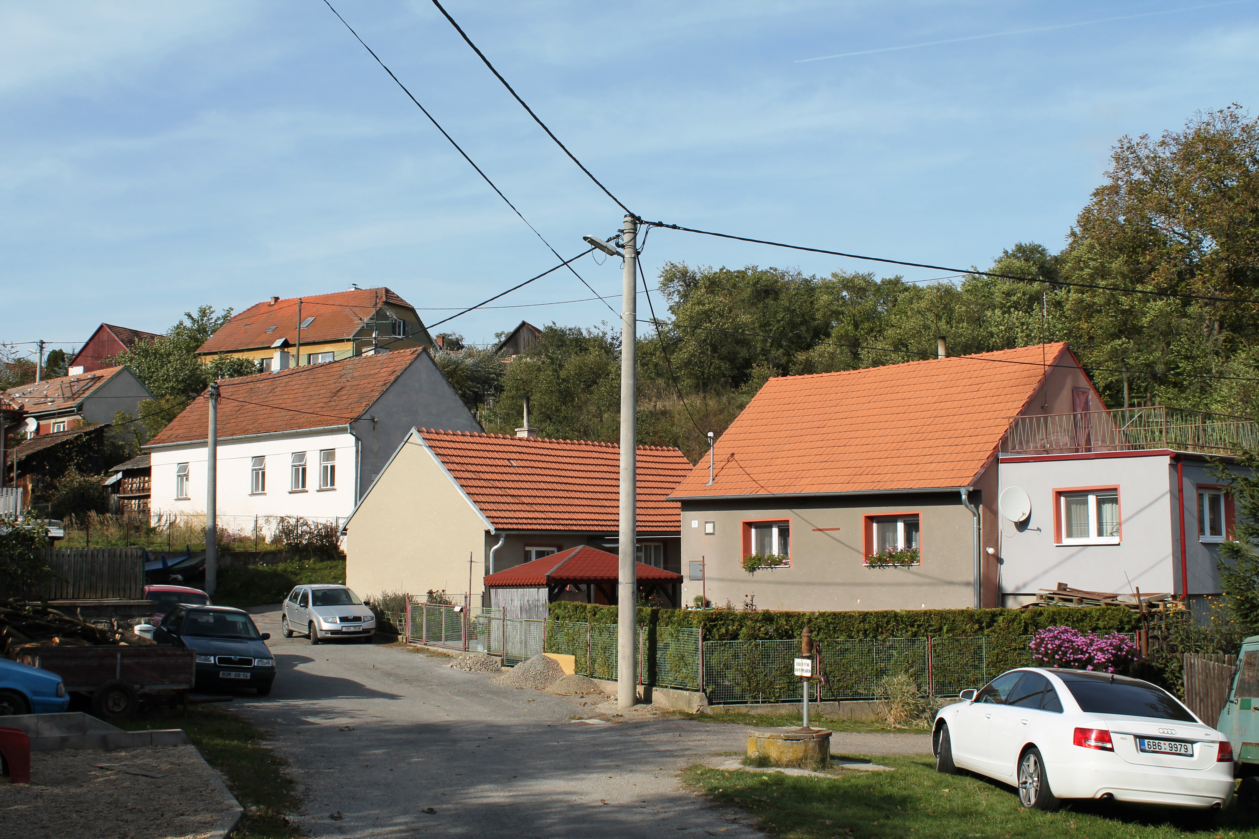 Radoškov, Přibyslavice, Brno-Country District, Czech Republic - Google Maps - Google Earth